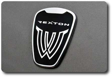 A "W" emblem on the 3rd generation of SY Rexton